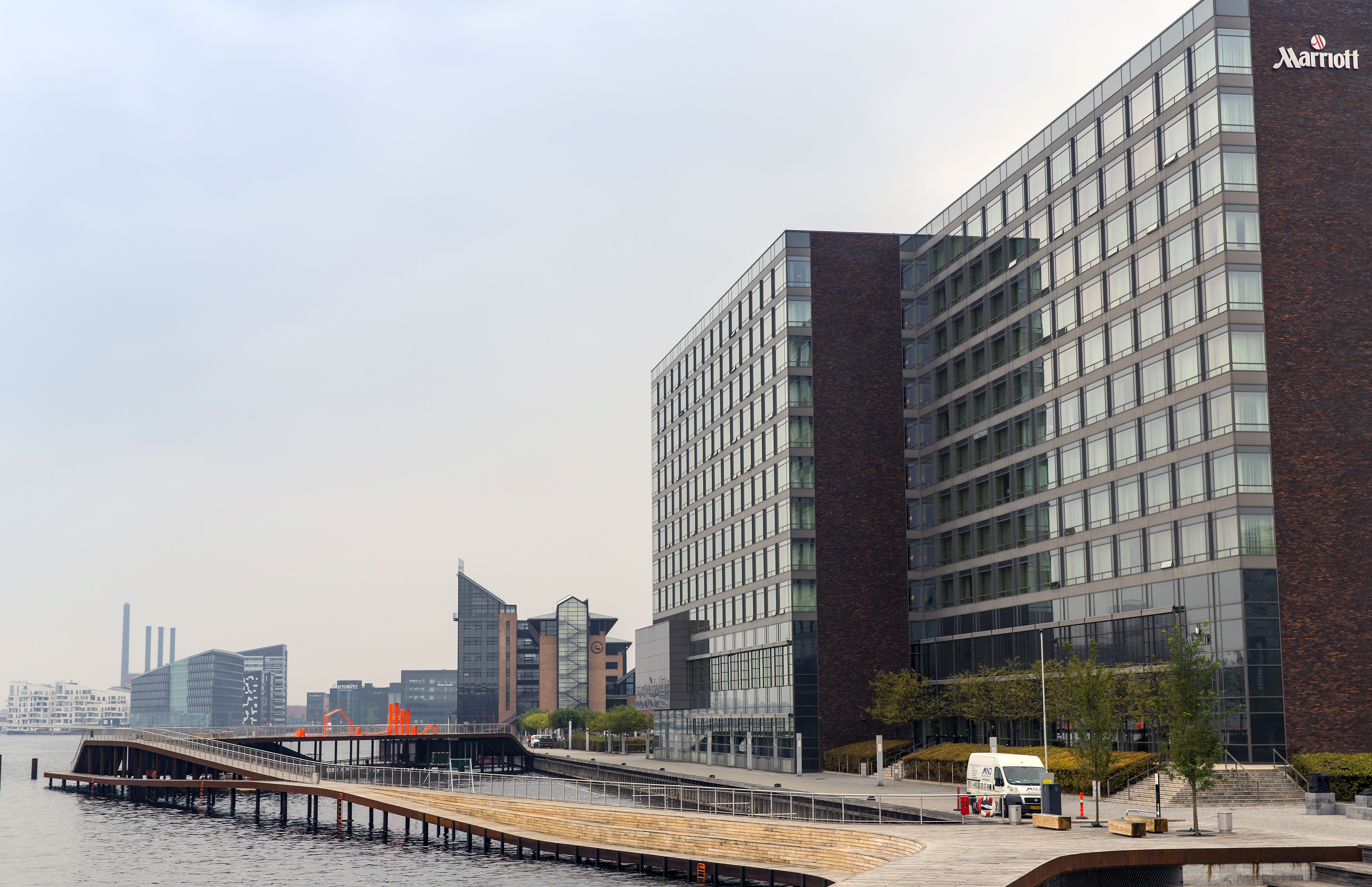 Kalvebod Brygge, København. Wikipedia: Kalvebod Brygge or Havneholmen is a waterfront district in Copenhagen, Denmark. The area is part of the Kongens Enghave, the southern part of Copenhagen. The area was heavily developed in the 1990s and is dominated by large office buildings and parking lots. This is often used as an example of poor city planning,[citation needed] which limited access to the waterfront for pedestrians and created large, vacant and uninviting areas during weekends and nights. Photo: News Øresund - Johan Wessman © News Øresund (CC BY 3.0) Detta verk av News Øresund är licensierat under en Creative Commons Erkännande 3.0 Unported-licens (CC BY 3.0). Bilden får fritt publiceras under förutsättning att källa anges. The picture can be used freely under the prerequisite that the source is given. News Øresund, Malmö, Sweden. News Øresund är en oberoende regional nyhetsbyrå som ingår i projektet Øresund Media Platform som drivs av Øresundsinstituttet i partnerskap med Lunds universitet och Roskilde Universitet och med delfinansiering från EU (Interreg IV A Öresund) och 14 regionala; icke kommersiella aktörer.